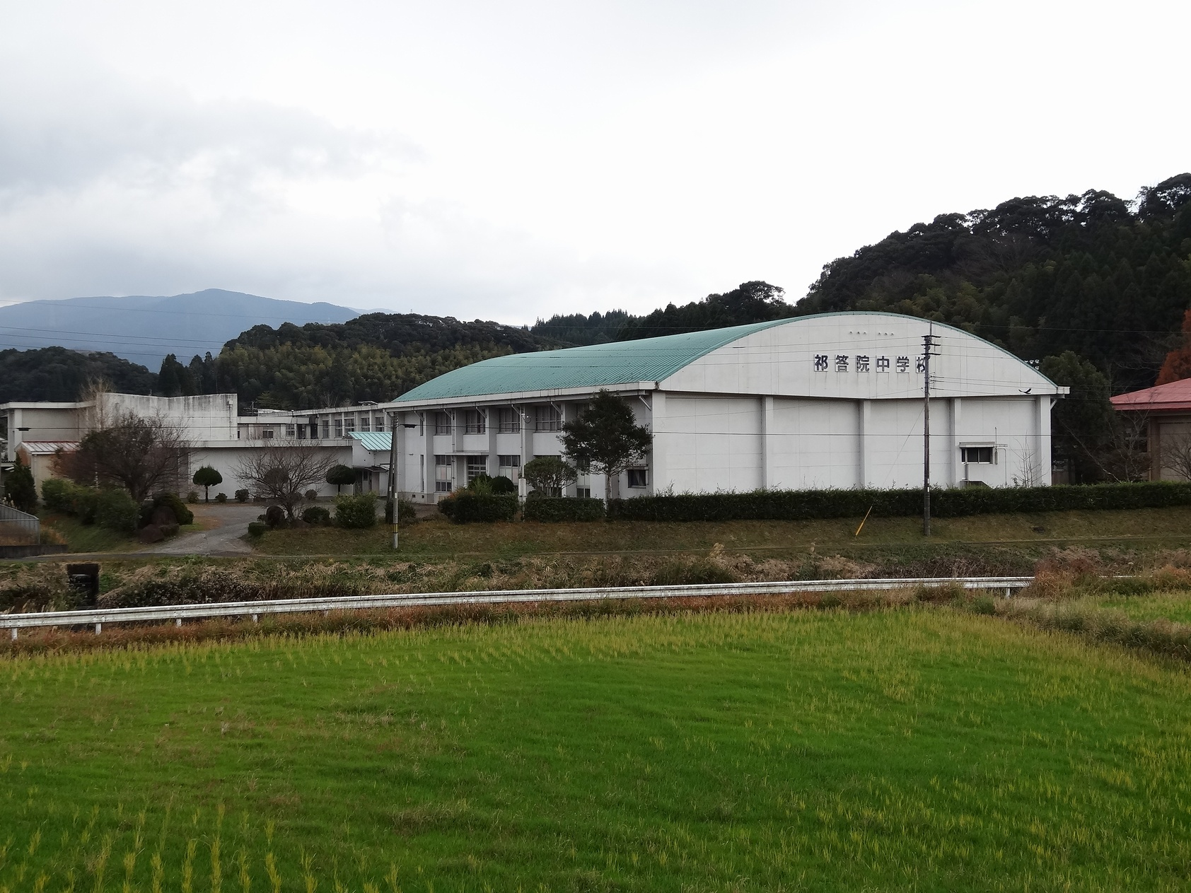 Kedoin Junior High School (Satsumasendai City, Kagoshima, Japan)